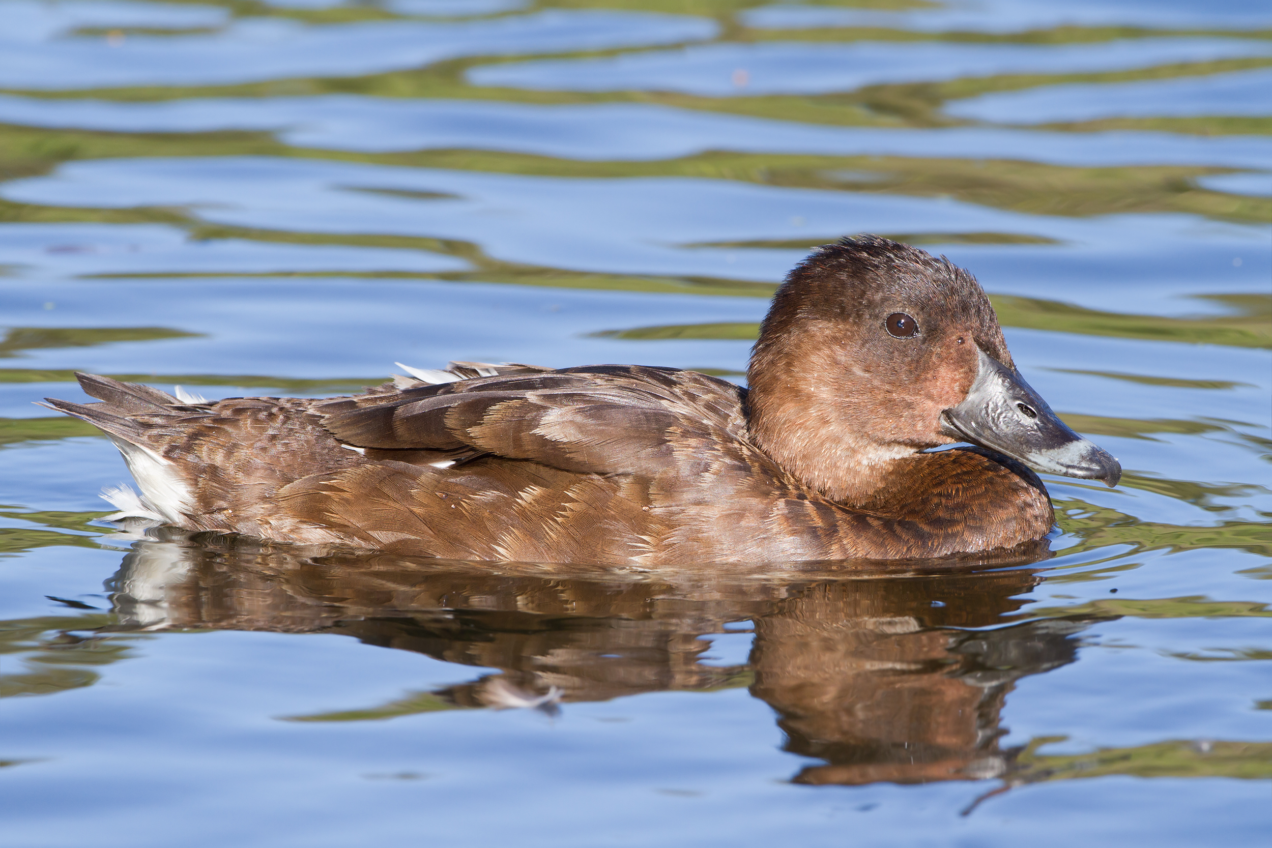 Hardhead (Aythya australis), Perth, Western Australia, Australia